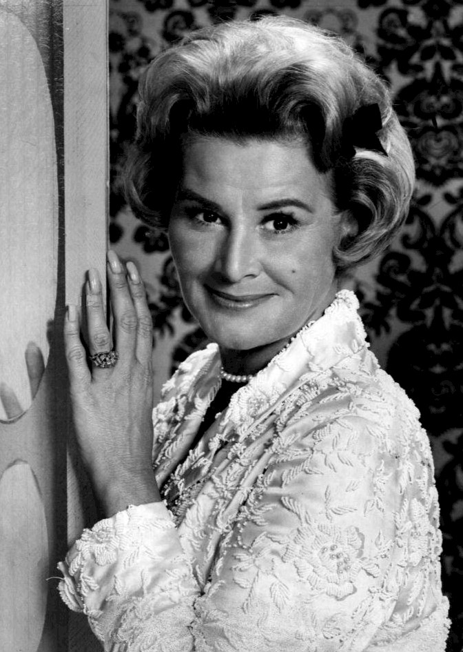 Photo of Rose Marie who was a cast member of the television program The Doris Day Show from 1969 to 1971.